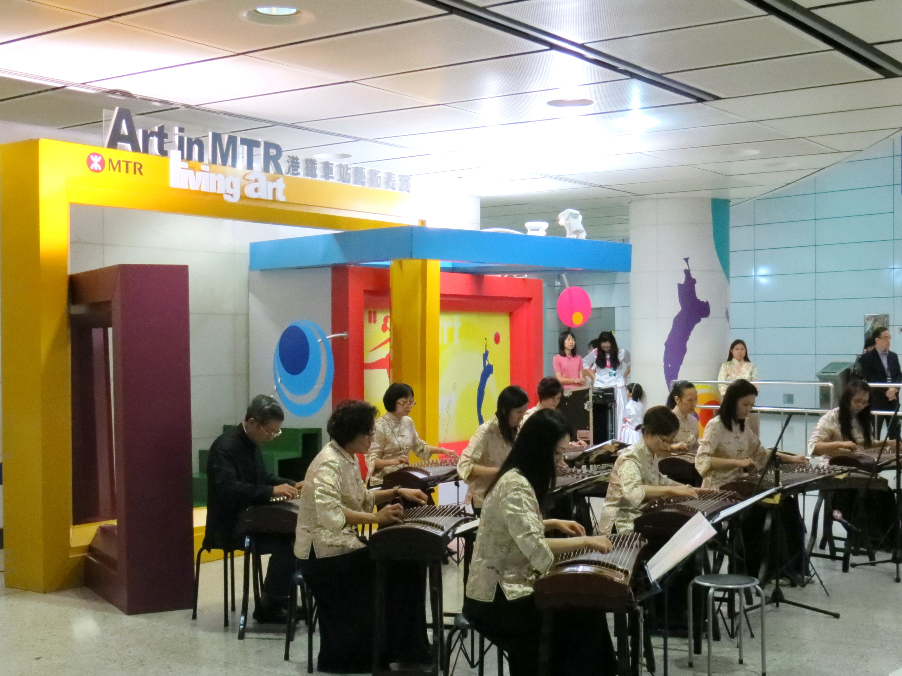 Art in MTR (Hong Kong Station). Tan Ching Zheng Ensemble. Nov 13. 2012.